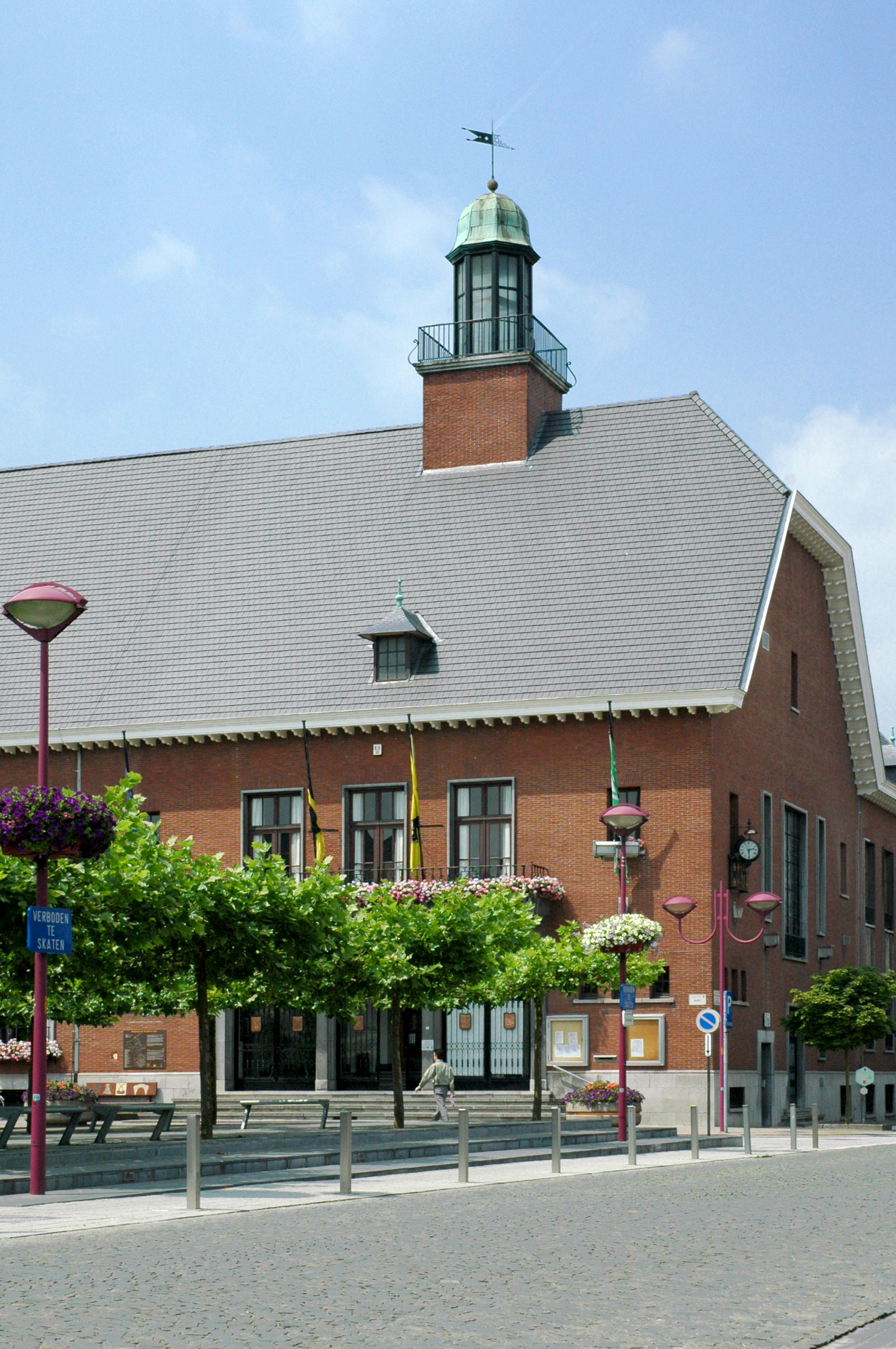 Townhall of Zele (Belgium)